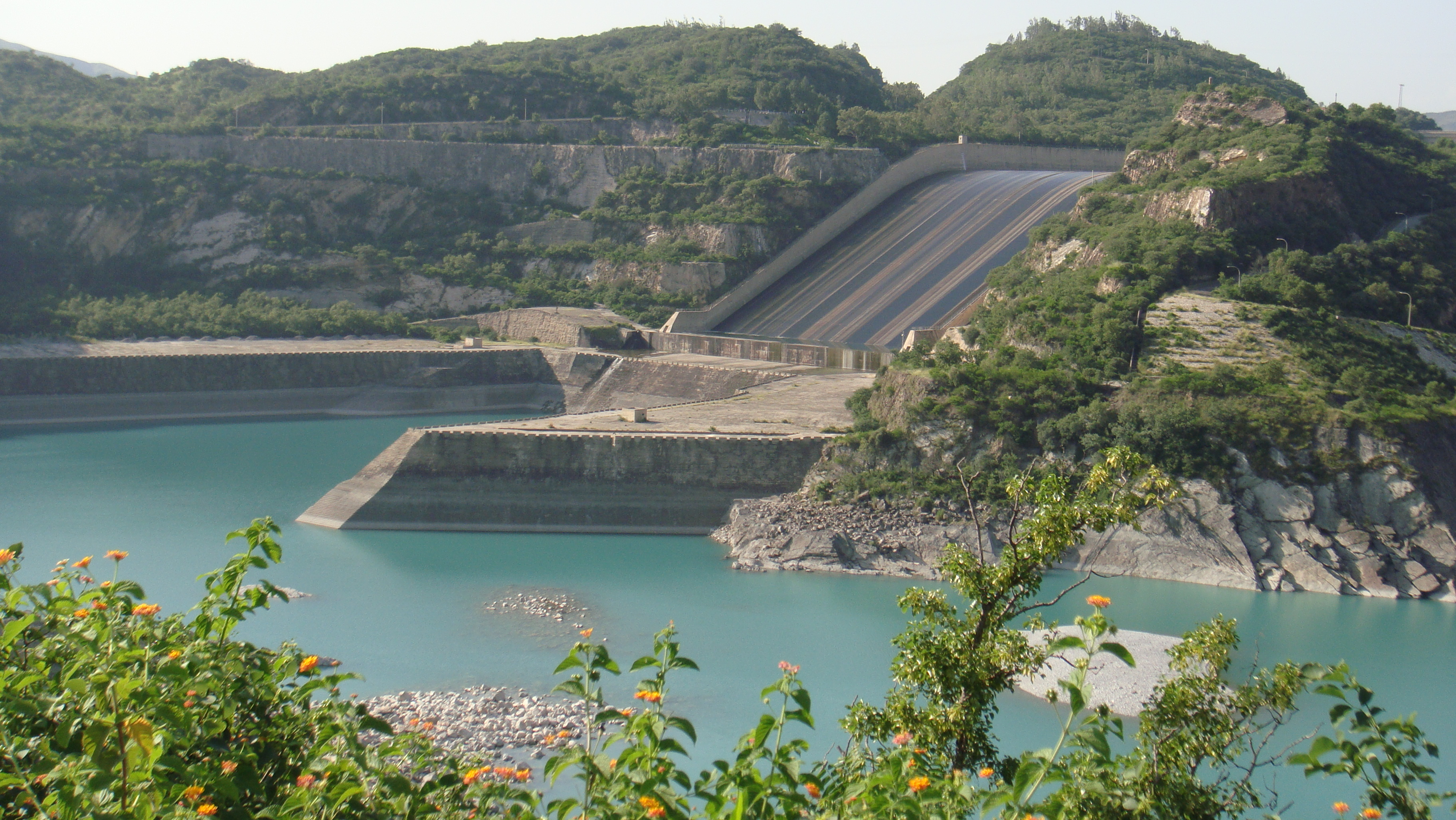 dam view